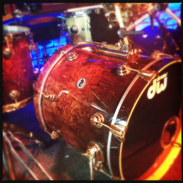 Drum Workshop Collectors Series Private Reserve Waterfall Bubinga